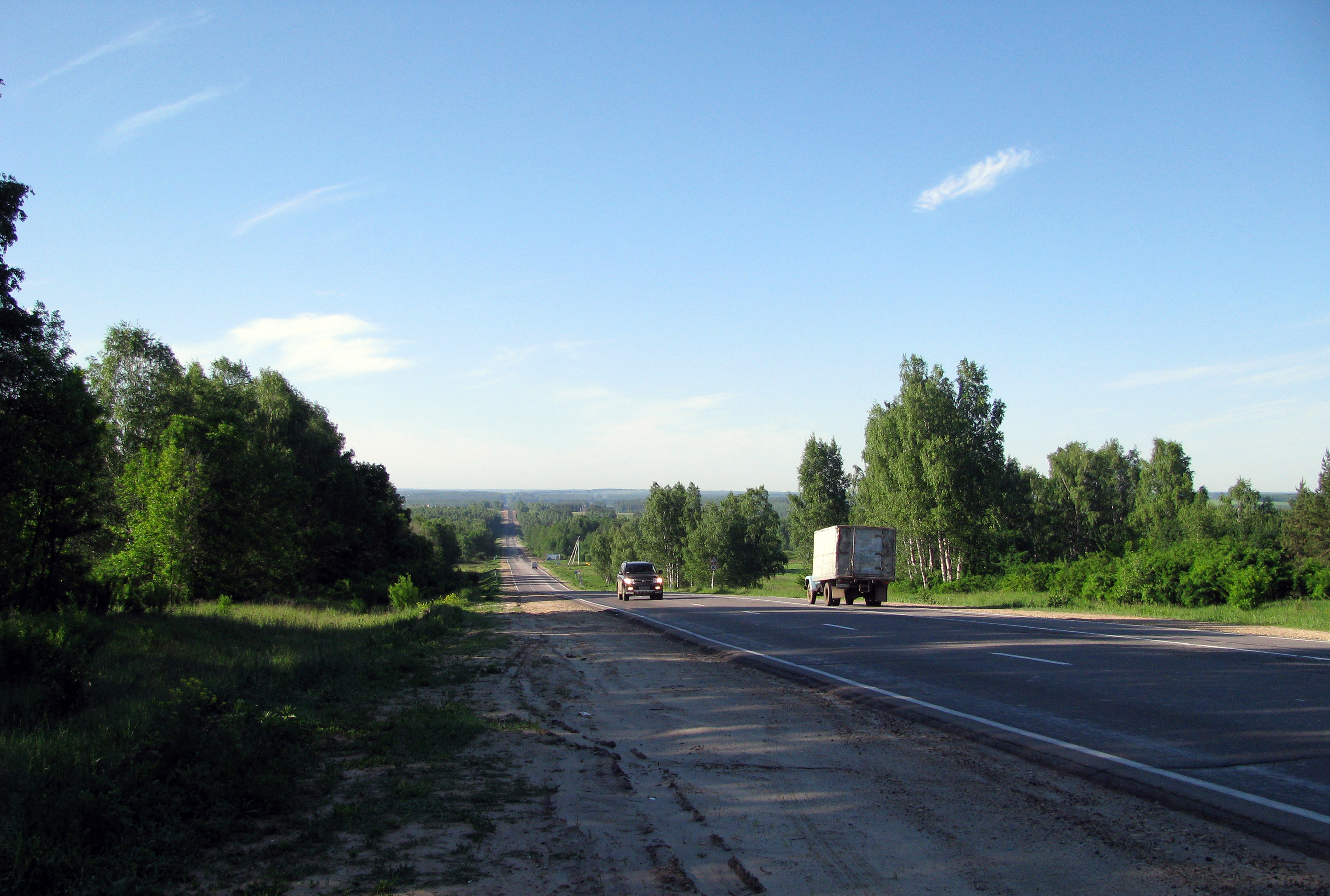 Route R158 not far from the village of Nizhegorodets in Dalnekonstantinovsky District of Nizhny Novgorod Oblast.